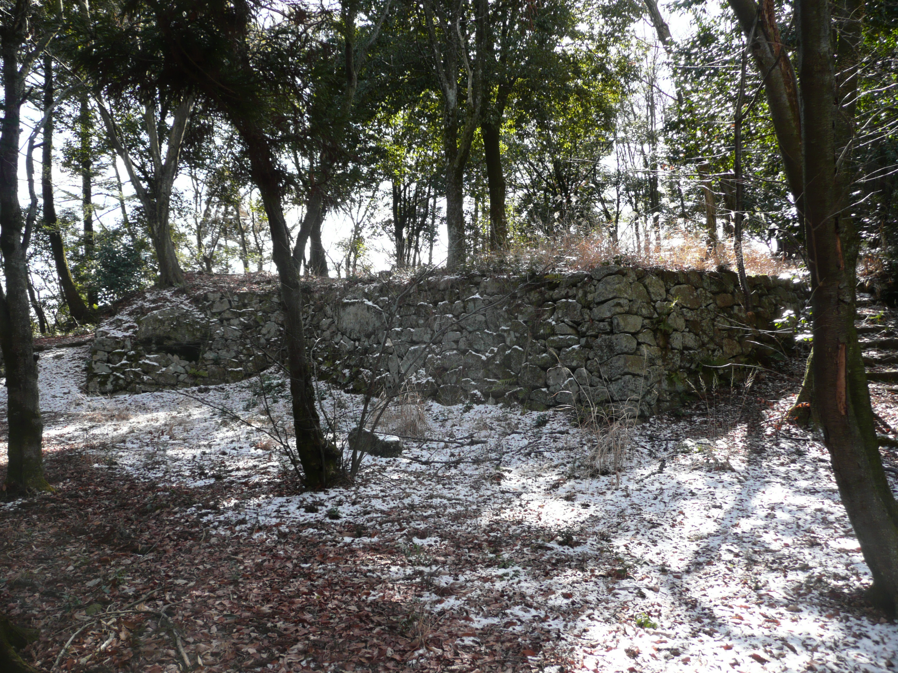 妻木城の本丸の石垣